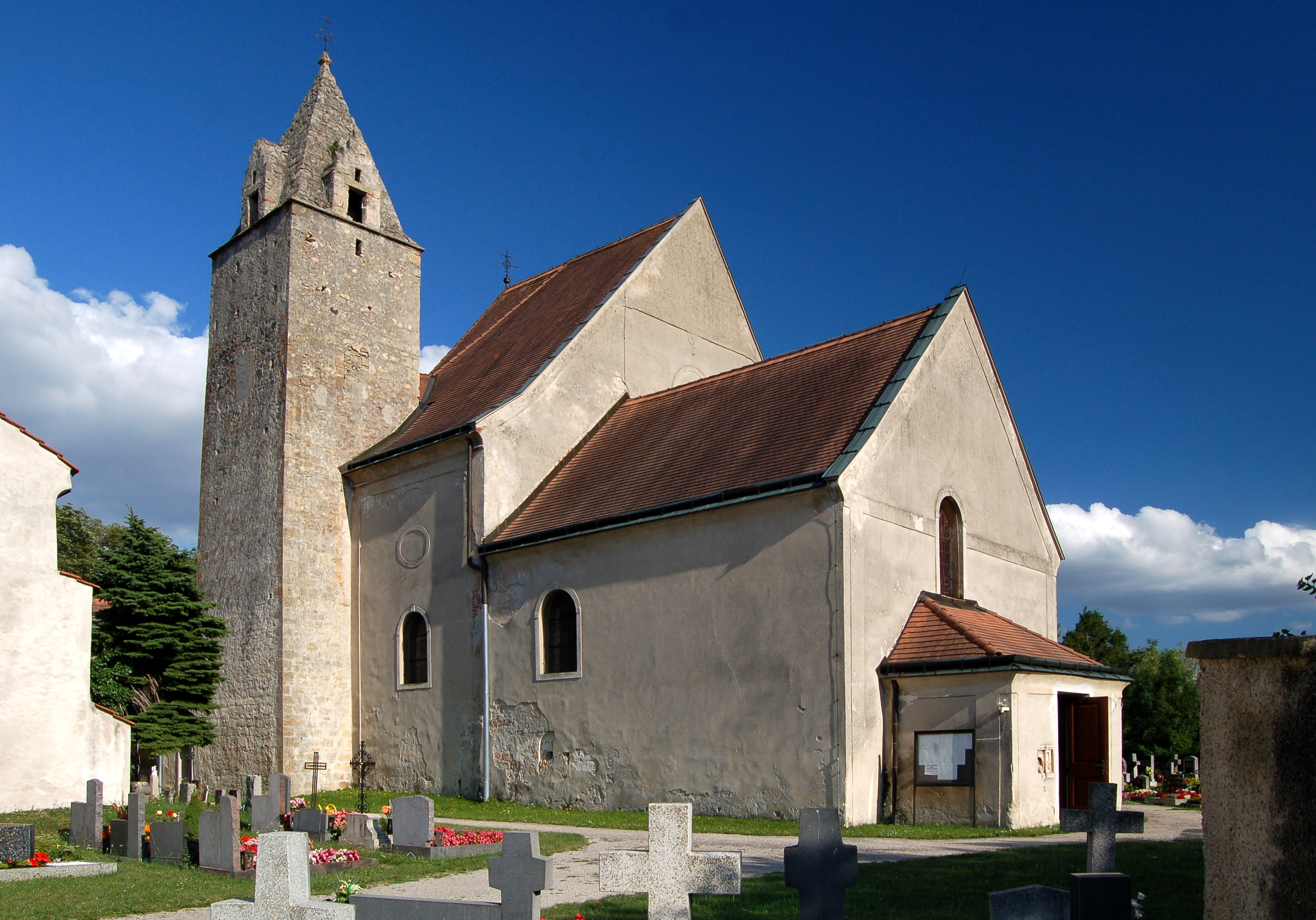 Parish church of St. Lorenzen am Steinfelde (municipality Ternitz, Lower Austria). On top of the tower the rare Spire lights.